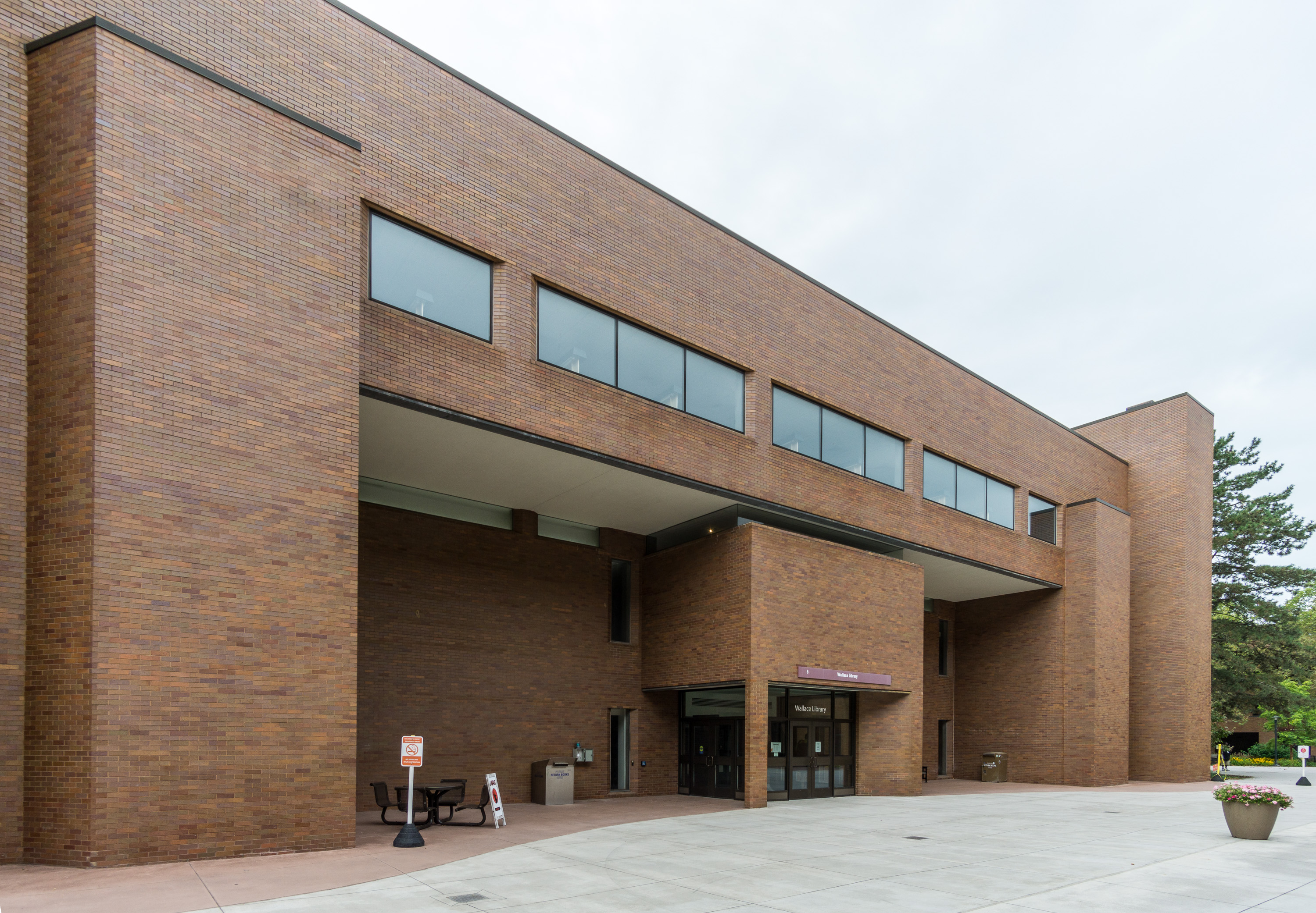 Rochester Institute of Technology Wallace Library